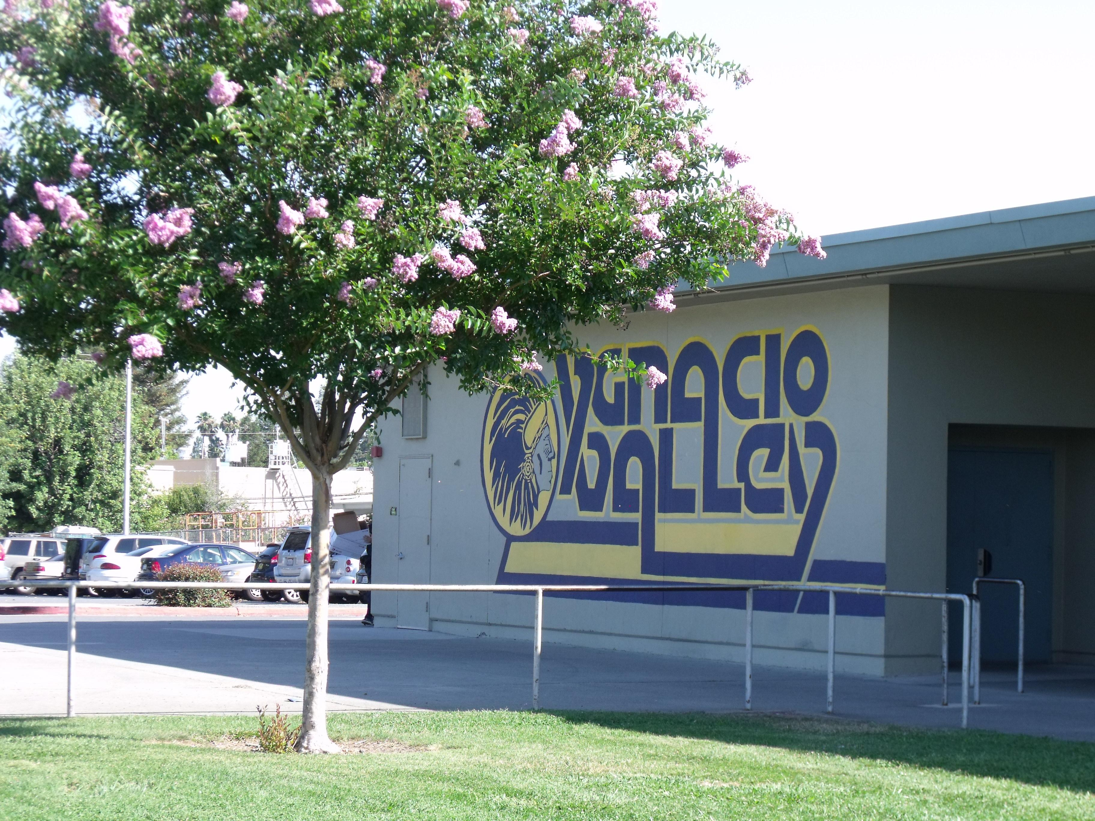 This is a picture of the Ygnacio Valley campus.